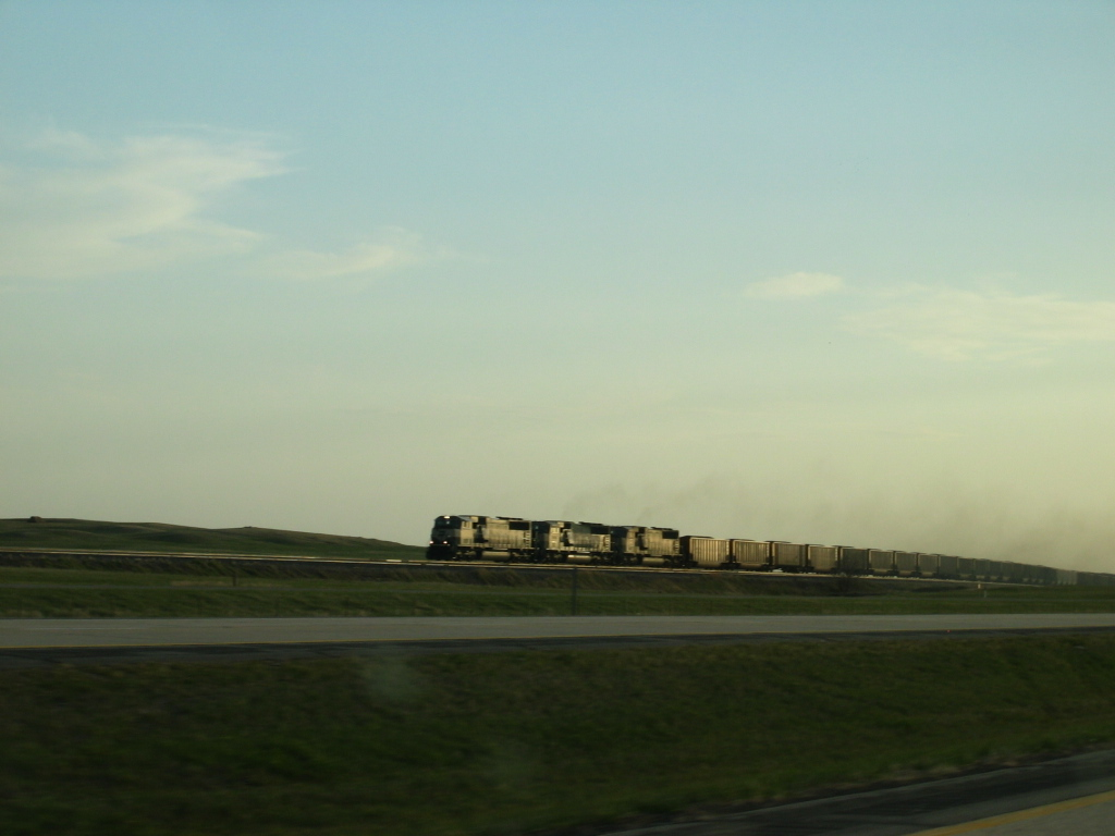 Train East bound seen from Interstate 94 in Montana.